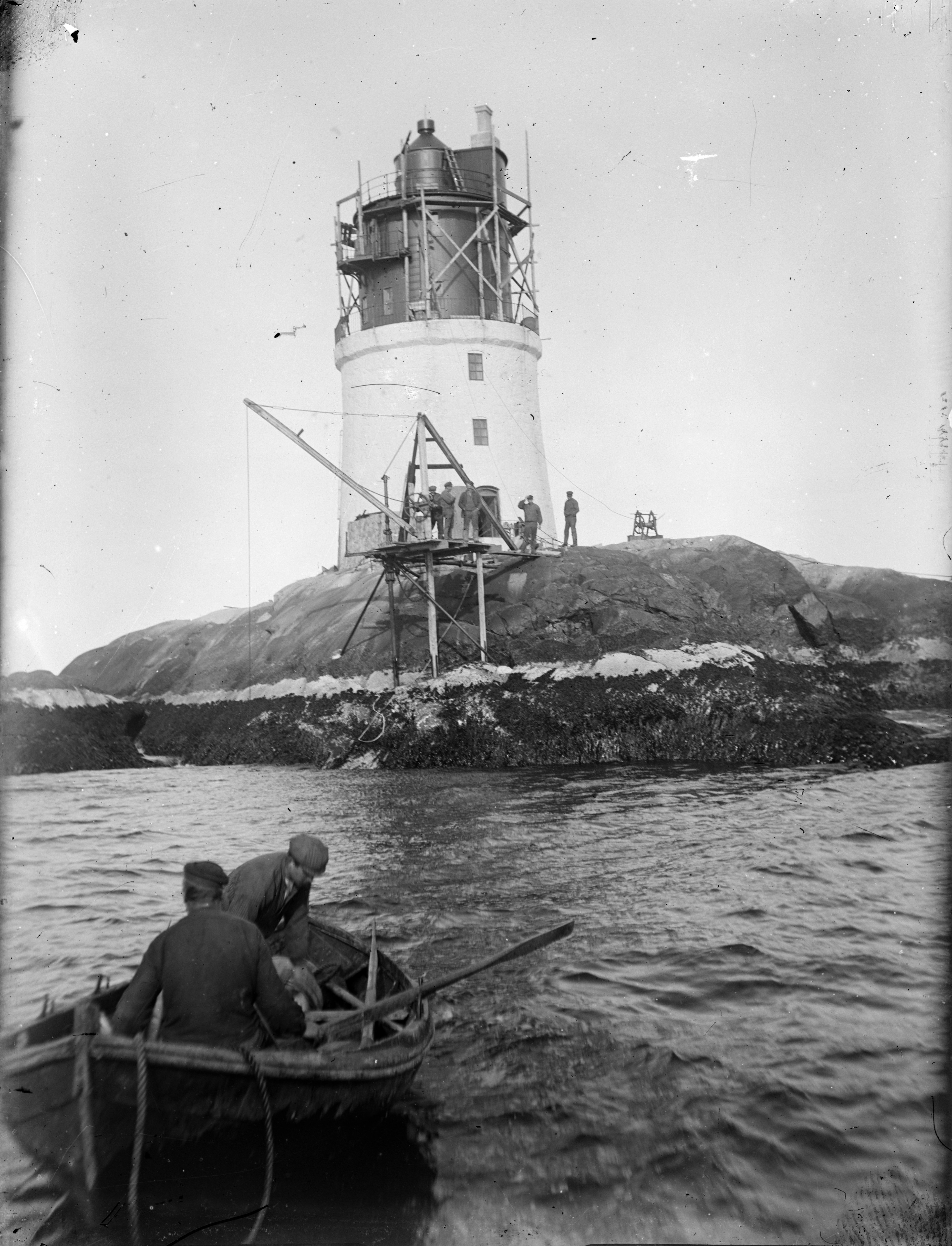 SFFf-1988007.0043 Gjæslingan lighthouse in Nord-Trøndelag - Thanks to Silupi for providing us with this information :). Construction of the lighthouse commenced in May 1875 and in October 1877 the light was lit for the first time. Photographer: Anders Folkestadås Date: ca 1900-1910. Medium: Glassplate negative Extent: 8 x 11 cm